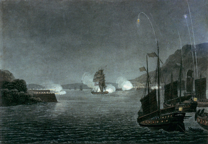 The engagement of Captain Sir Murray Maxwell in HMS Alceste, 1816, with the Chinese fortresses on the Bocca Tigris, both of which he immediately silenced.